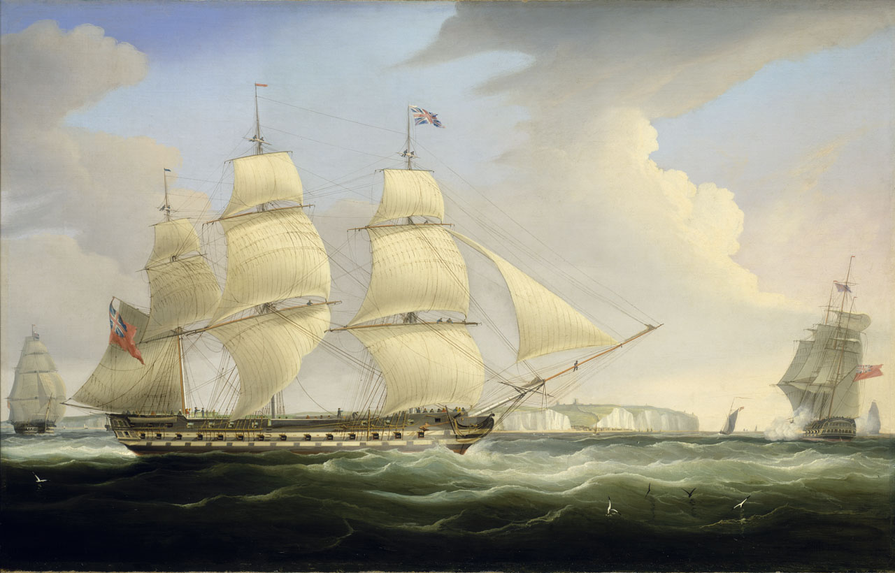 A portrait of the East Indiaman ‘Atlas’, shown off South Foreland, near Dover, in broadside view. She sailed on her first voyage to India in 1813 and made at least nine more thereafter until 1830. As the picture is dated 1826 [sic!], it was probably made at the end of her seventh voyage to Madras and China. The ‘Atlas’ was built in 1812 at Paul's Yard near Hull, her managing owner being James Staniforth. She was mounted with 26-guns and had a complement of 130 men at full strength. During her East India Company service she sailed to Madras, Bengal and China under the command of Captain Charles Otway Mayne, who was able to accumulate a fortune as a result of these voyages. This was not always without problems, since in 1817, the surgeon and second mate of the ‘Atlas’ complained to the council at Canton that Mayne had taken all the extra 30 tons of private cargo normally allowed by the Company to ships officers. Their claim was upheld. After six voyages Mayne became the ship's husbandman and placed the command of the vessel under Captain John Hine, after which the ‘Atlas’ undertook a further three regular sailings. She arrived at Gravesend at the end of her last voyage in August 1830 and was sold in May 1831 to C. Carter for breaking.[1] ↑ NMM